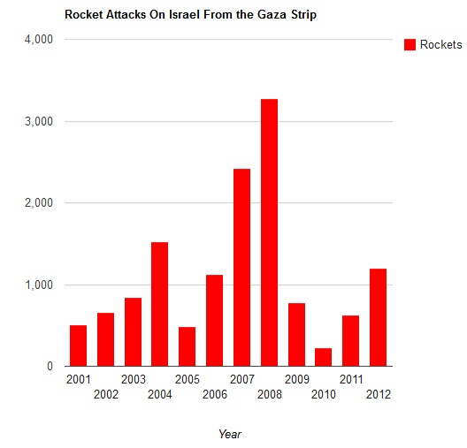 Rocket attacks from Gaza on Israeli towns from 2001 through October 2012